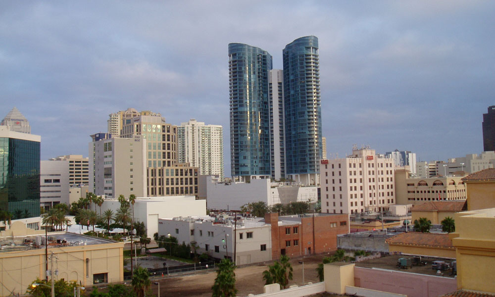 Skyline of a portion of Fort Lauderdale from the west.